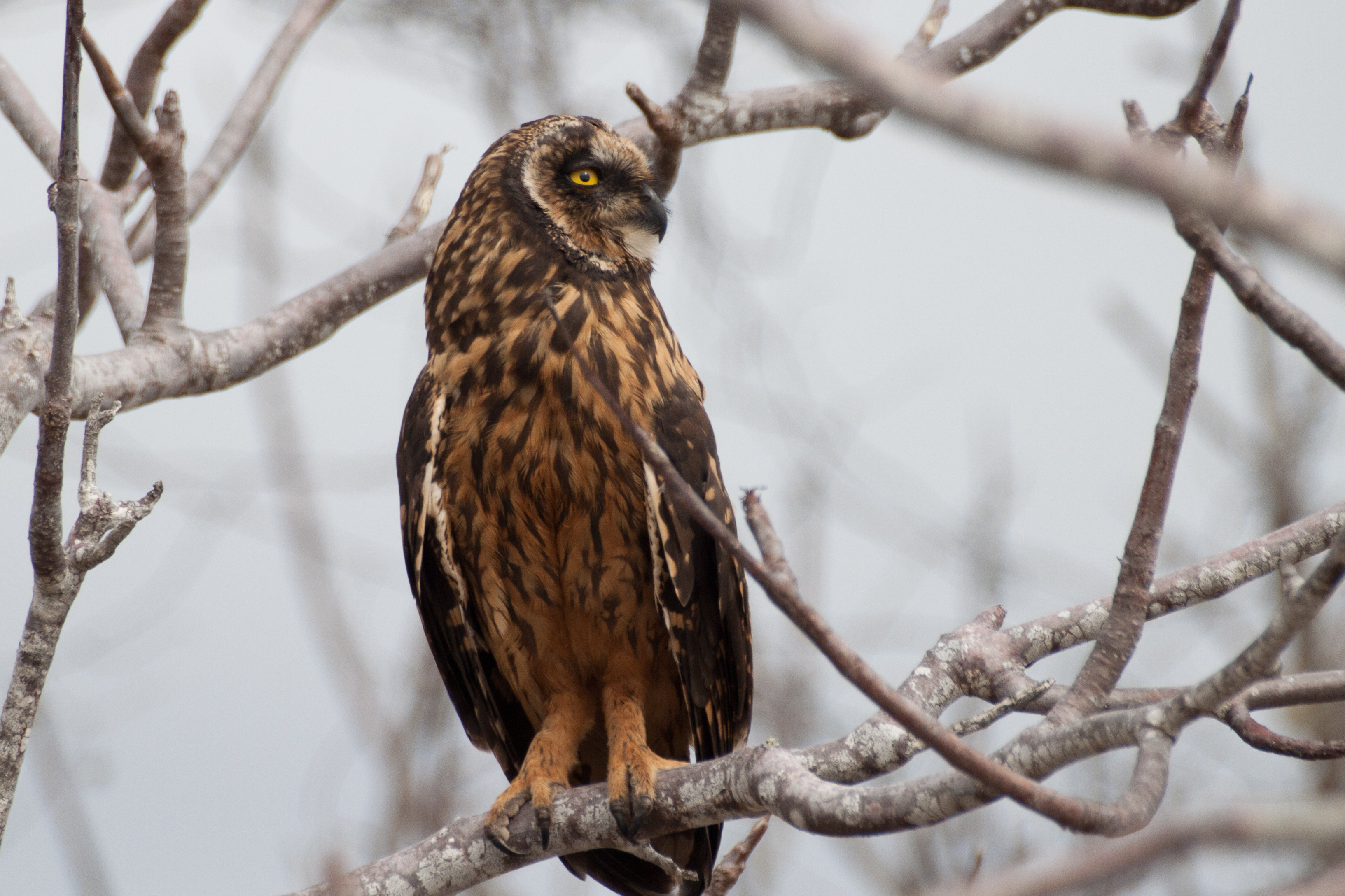 A Short-eared Owl on Genovesa Island, Galapagos Islands, Ecuador.